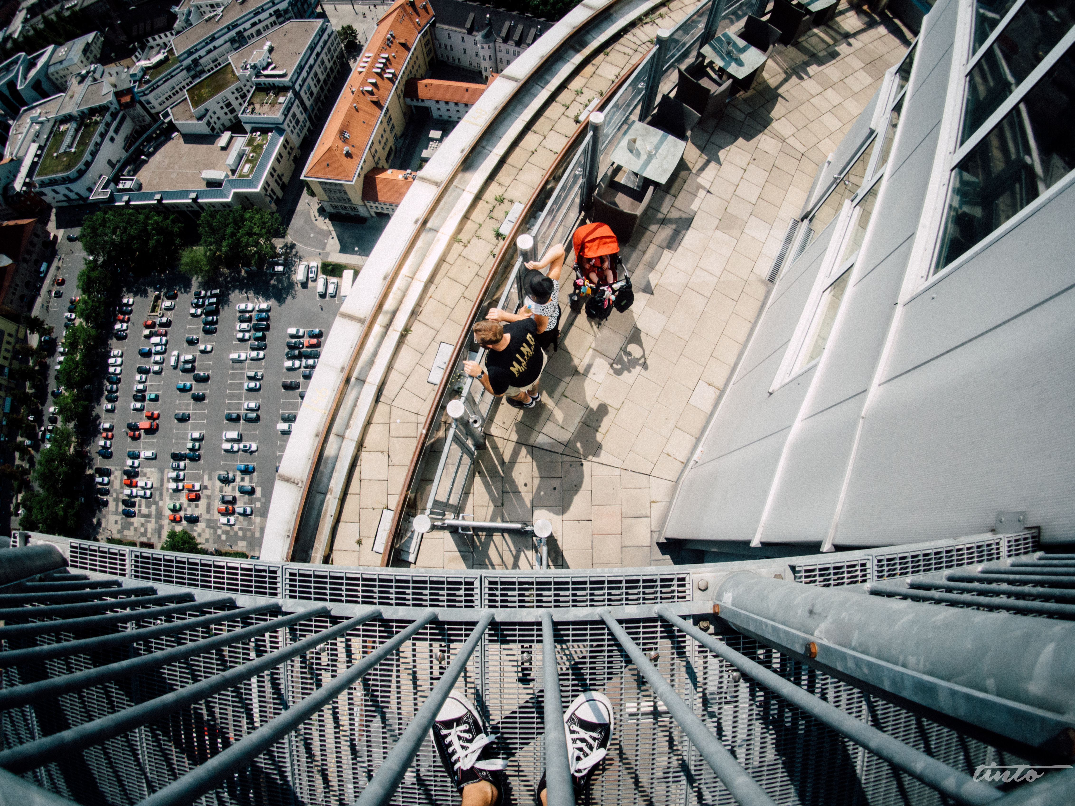 At the JenTower in Jena, Germany, in summer 2015